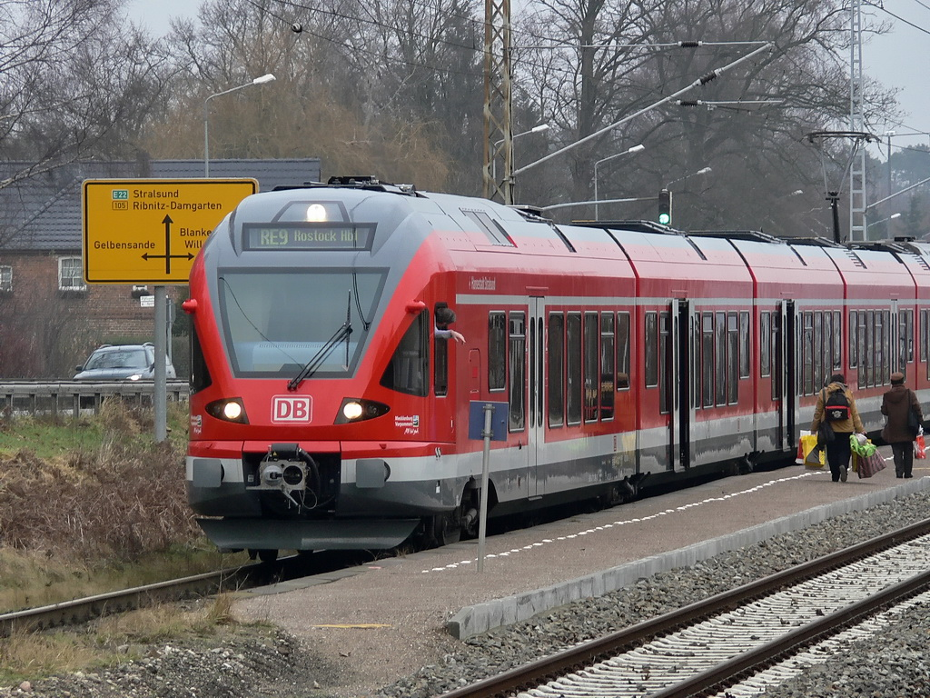 Stadler FLIRT at Gelbensande station